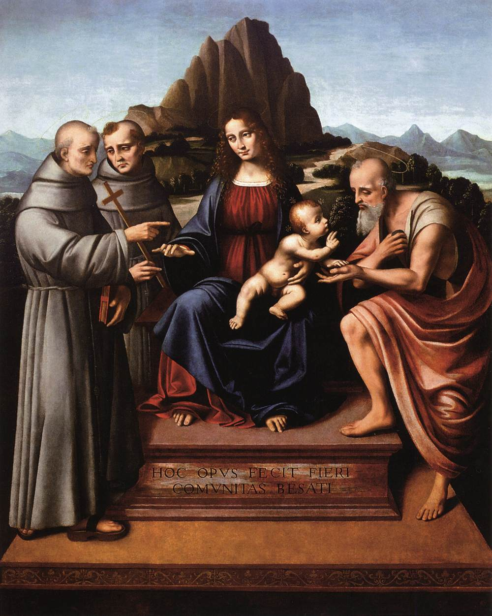 Depicted people: Mary, Jesus, Saint Jerome, Bernardino of Siena and John of Capistrano